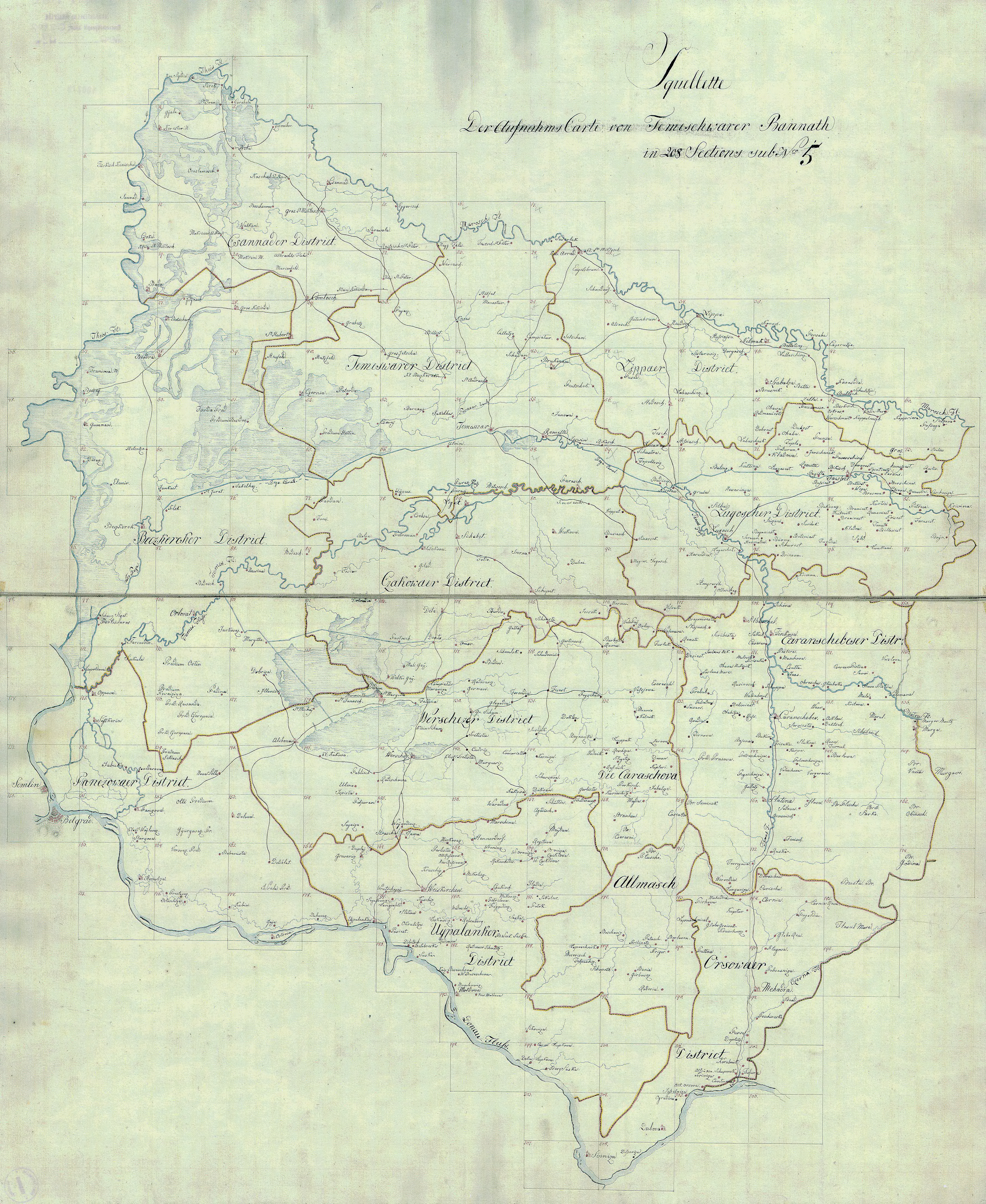 The Banat region in the cadastral maps: Josephinische Landesaufnahme, 1769-72.